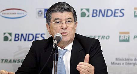 Sergio Machado, racked operation Lava jet in Brazil.